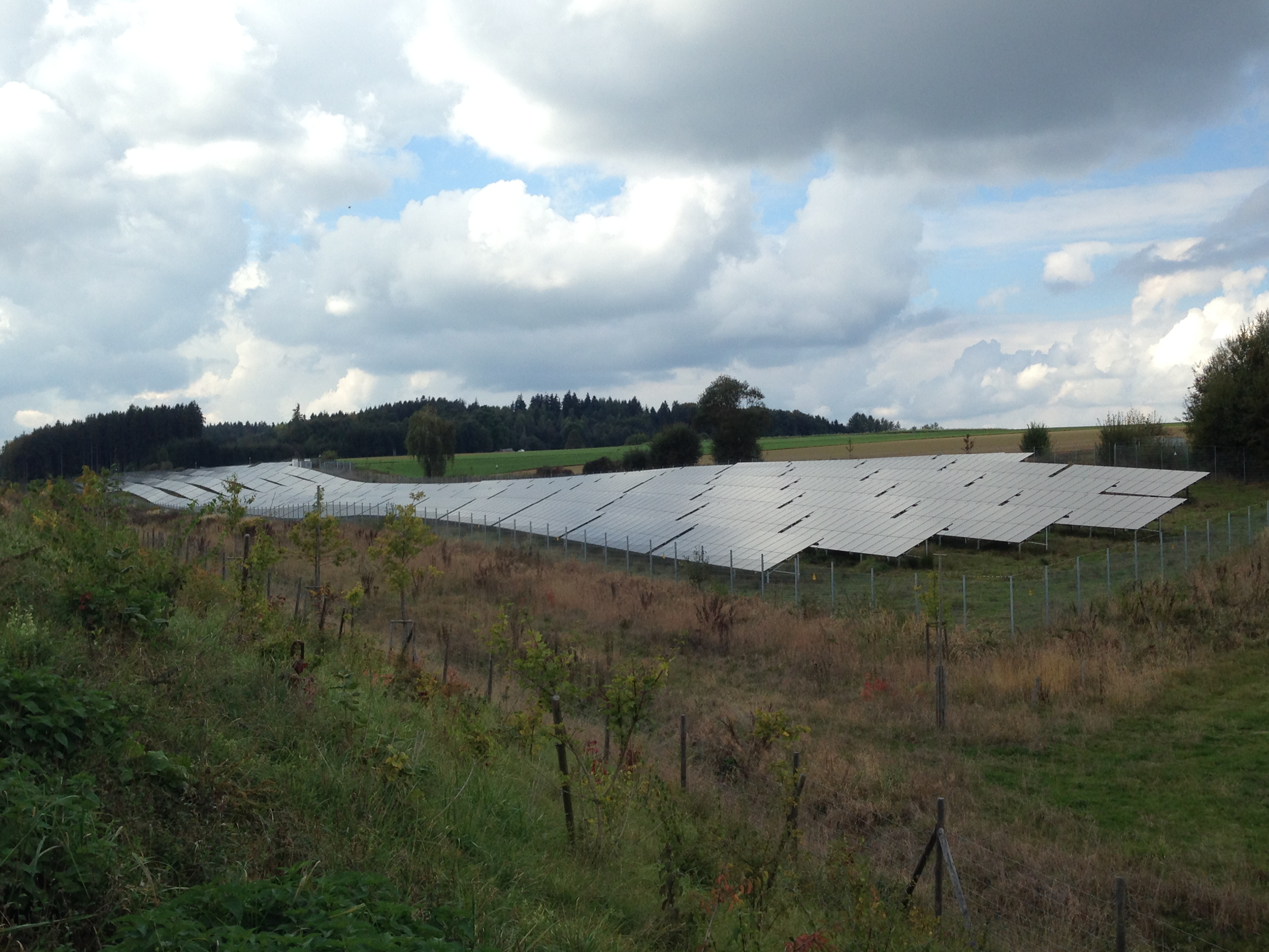 Edenbergen solar park